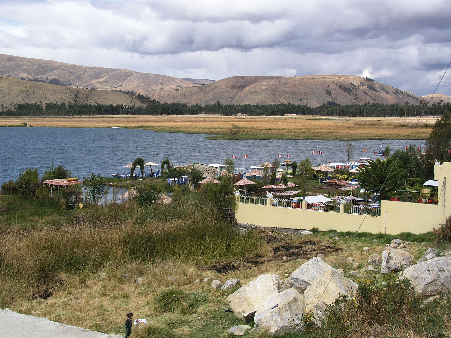 Lake "Laguna de Paca", Jauja, Valley of Mantaro, Junín, Peru.